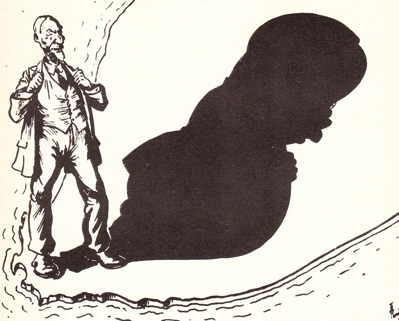 Cartoon : Jan Smuts standing tall over the South African landscape with his deputy, Jan Hofmeyr, cast as Smuts's shadow over the entire map of the country.